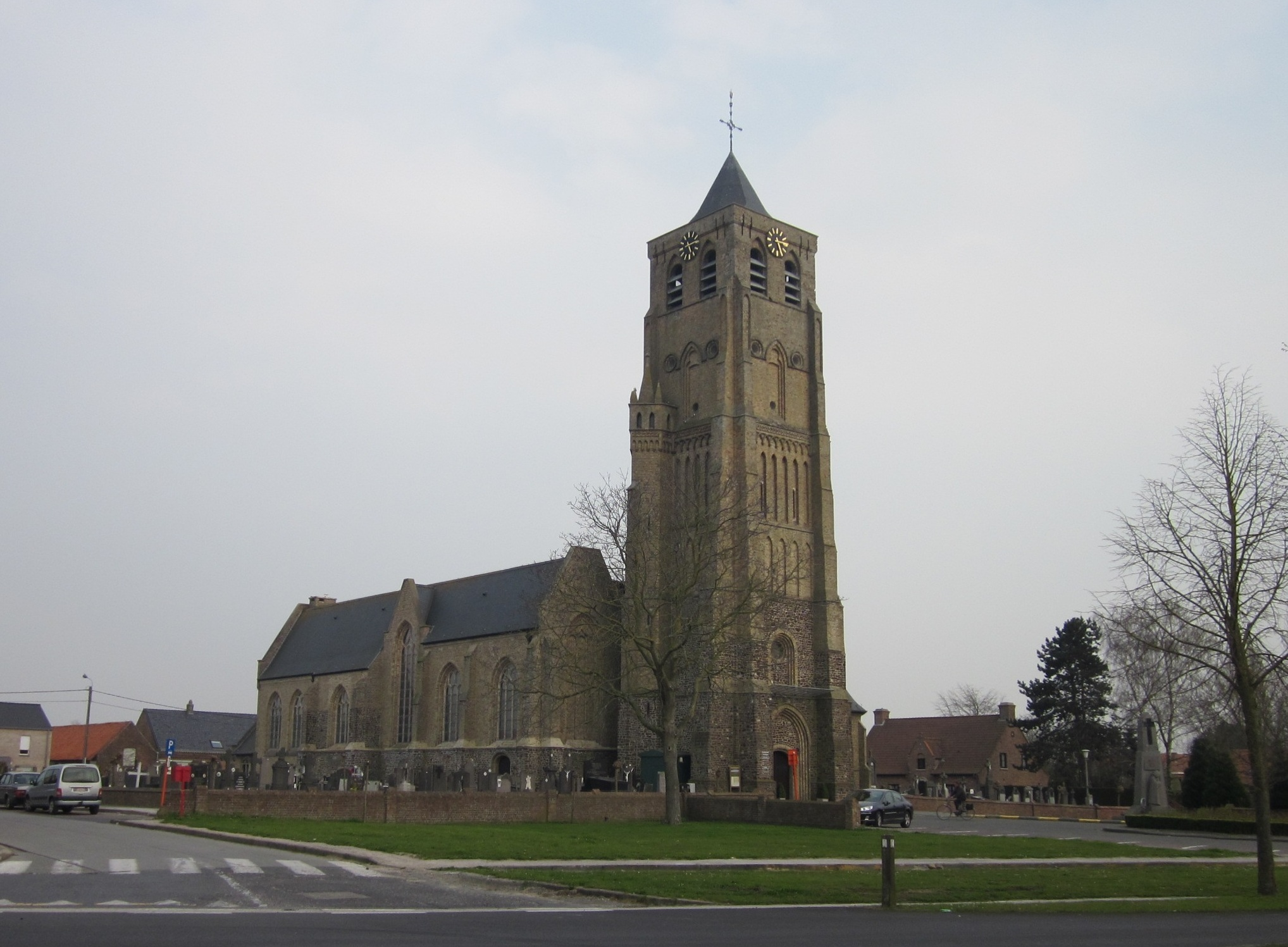 Saint Andrew church in Woumen (Diksmuide), Belgium